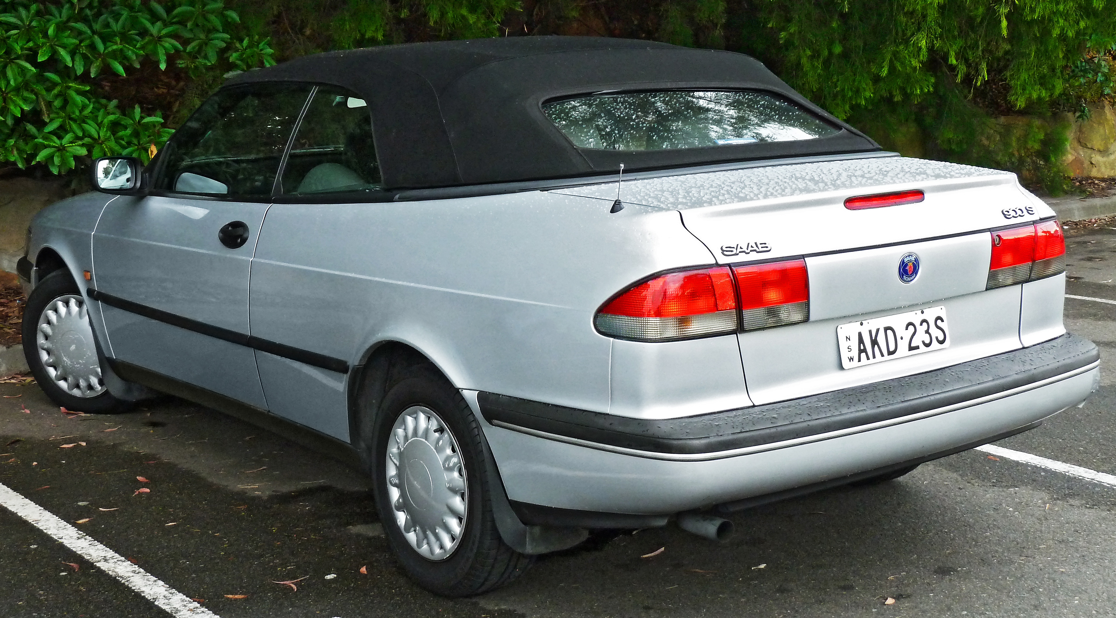 1995 Saab 900 (MY95) S convertible. Photographed in Kirrawee, New South Wales, Australia.